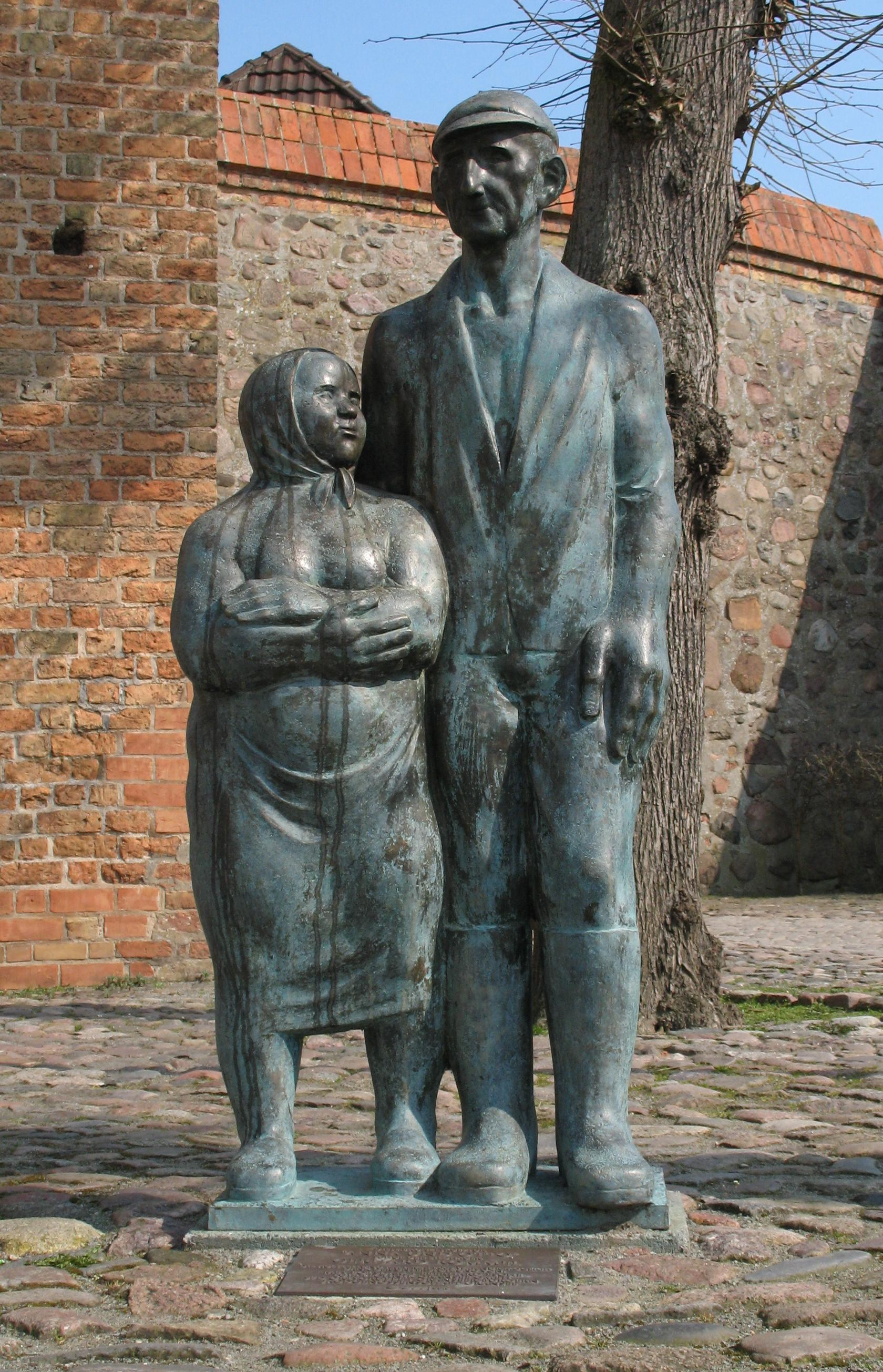 Sculpture in Gransee in Brandenburg, Germany